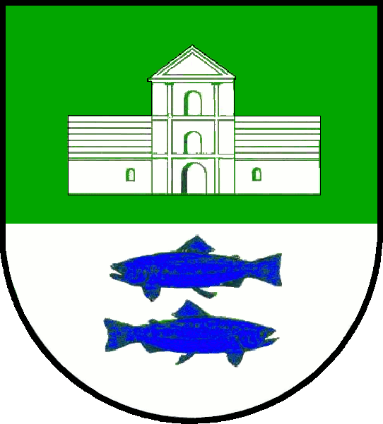 Coat of arms of the municipality Sarlhusen in Schleswig-Holstein, Germany.